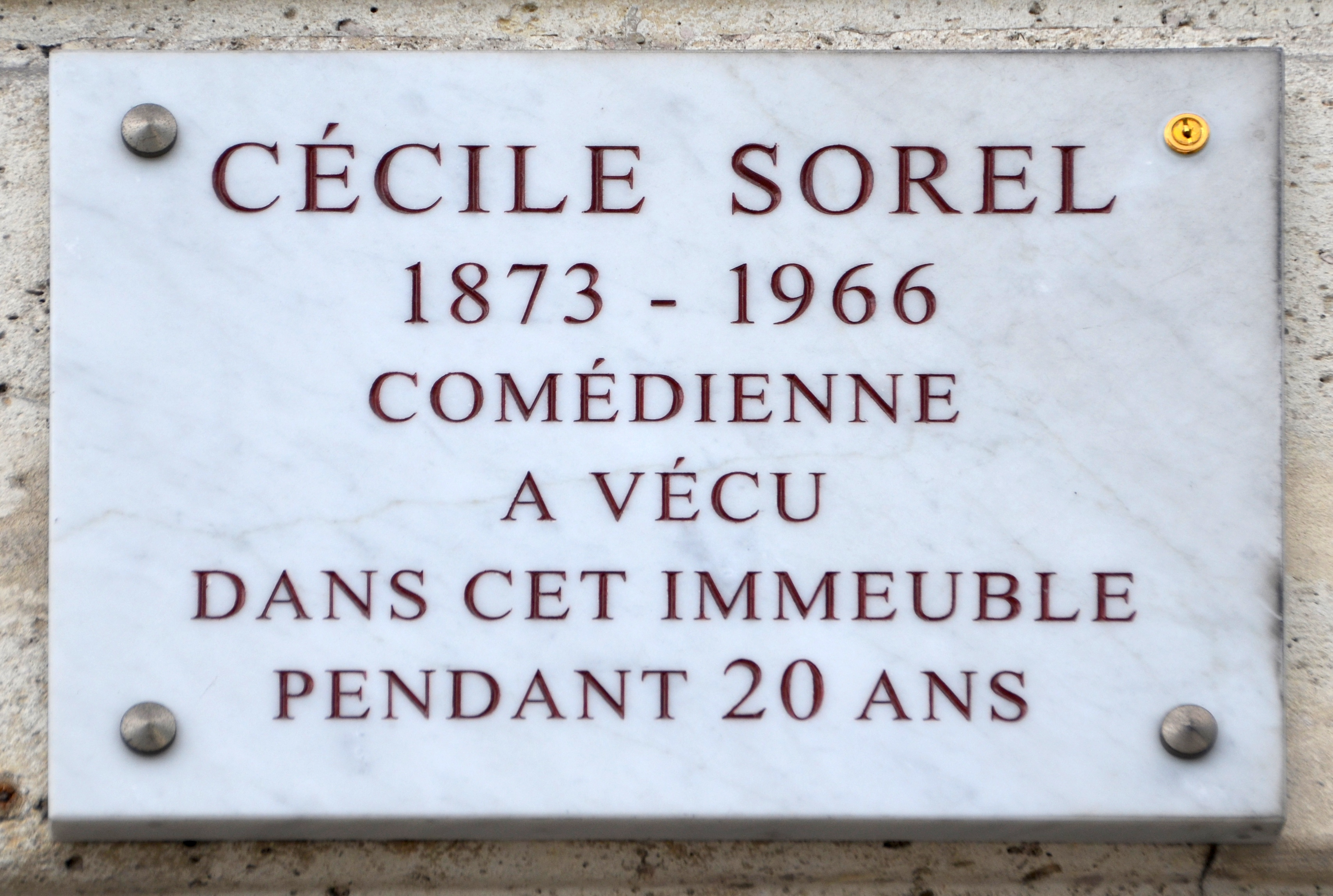 This picture shows the entrance to no. 7, with Sorel's plaque and one other. The other two plaques on the building are for Dominique-Vivant Denon, first director of the Louvre museum, and Lt. Colonel Hubert de Lagarde, who was an FFI leader in WWII.